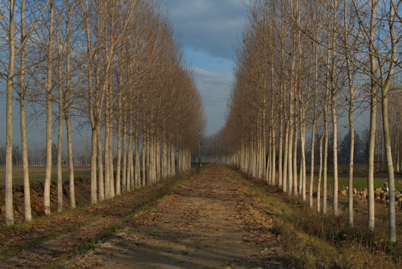 Cycleway by Adda river